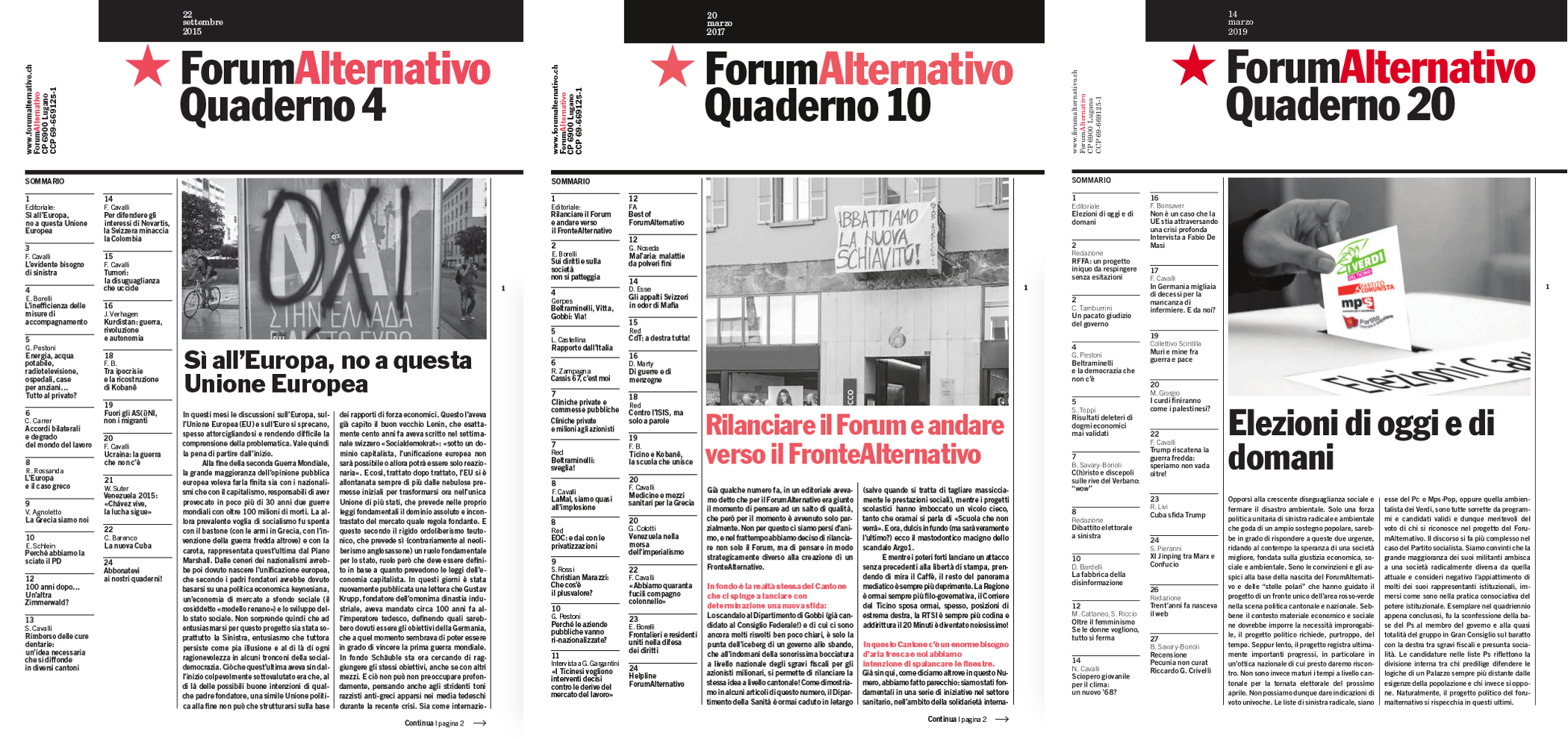 Exemples of the Quaderno of the ForumAlternativo.